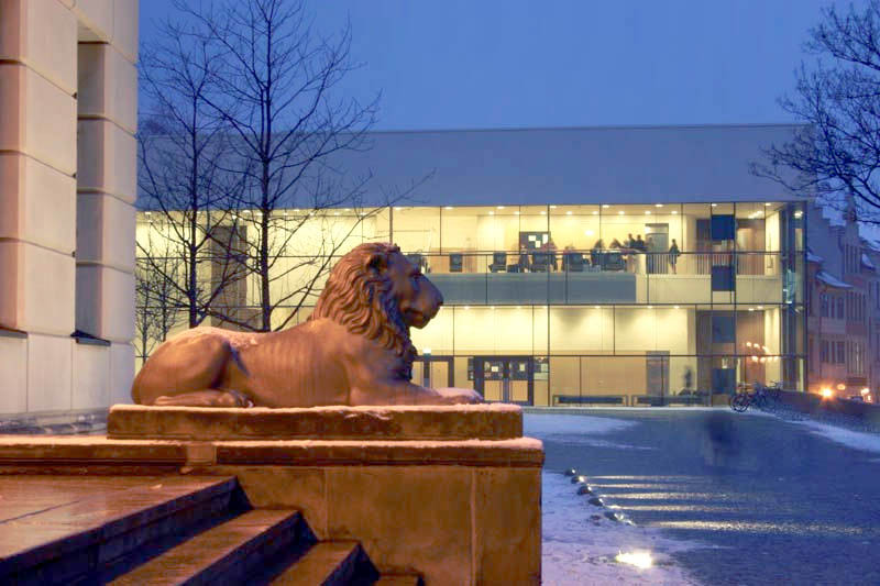 Halle/Germany Universitätsplatz